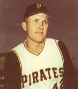 Professional baseball player Woody Fryman